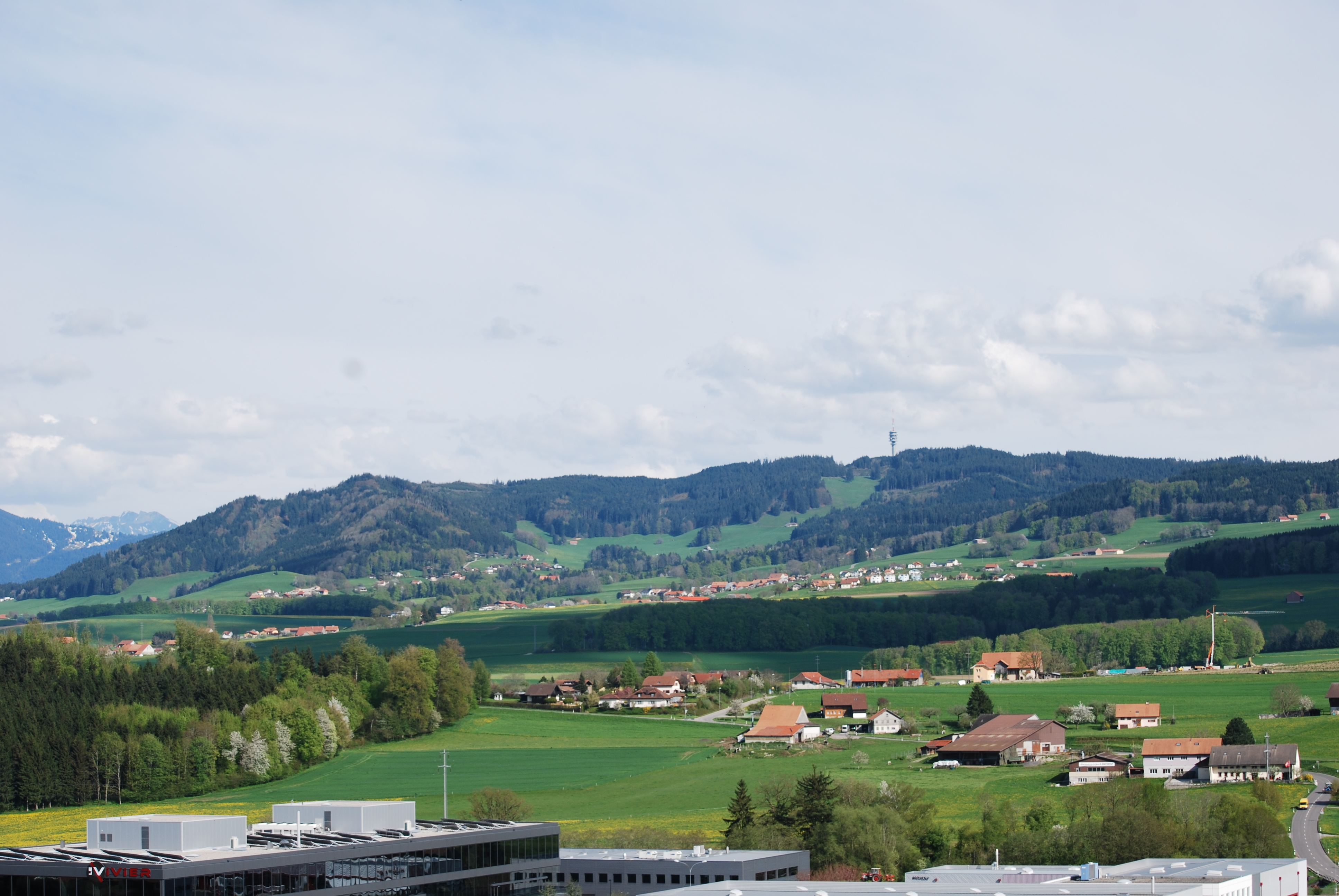 Mount Gibloux seen from Villaz-Saint-Pierre, canton of Fribourg, Switzerland - Mount Gibloux with the Swisscom tower in the back